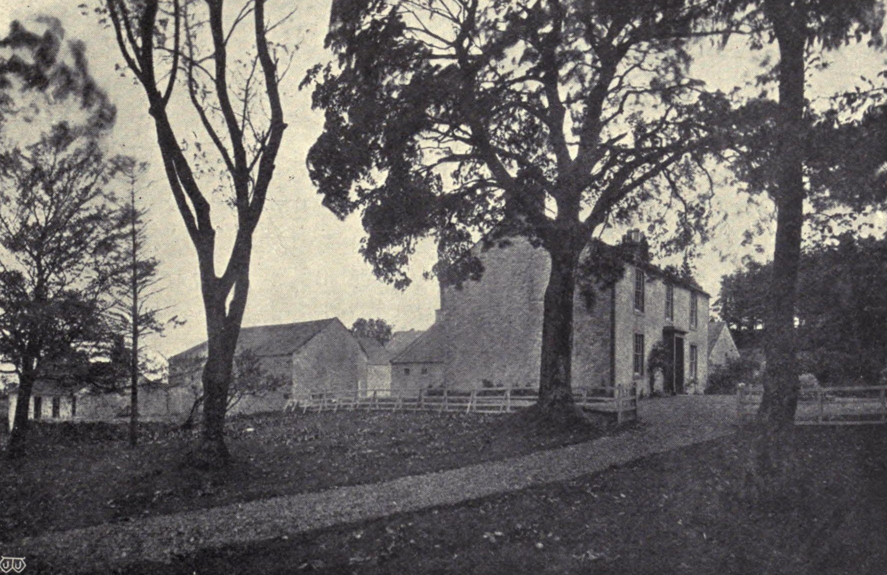 Picture of Carlyle's Craigenputtock